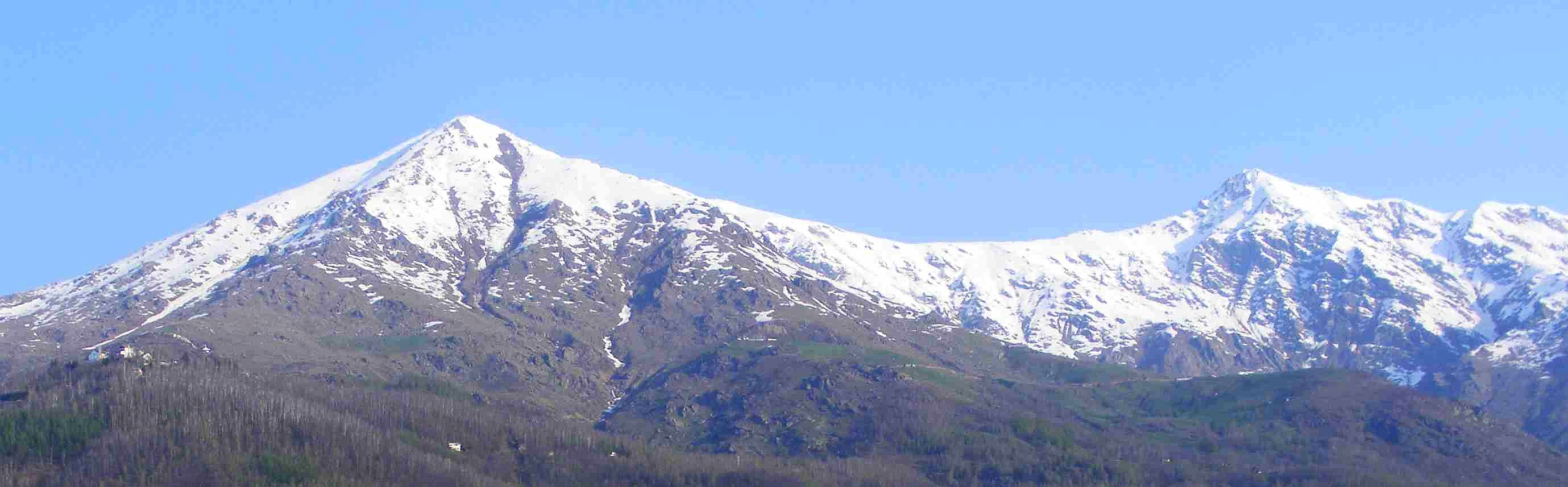 Mount Quinseina (left) and Verzel (right) - TO, Italy